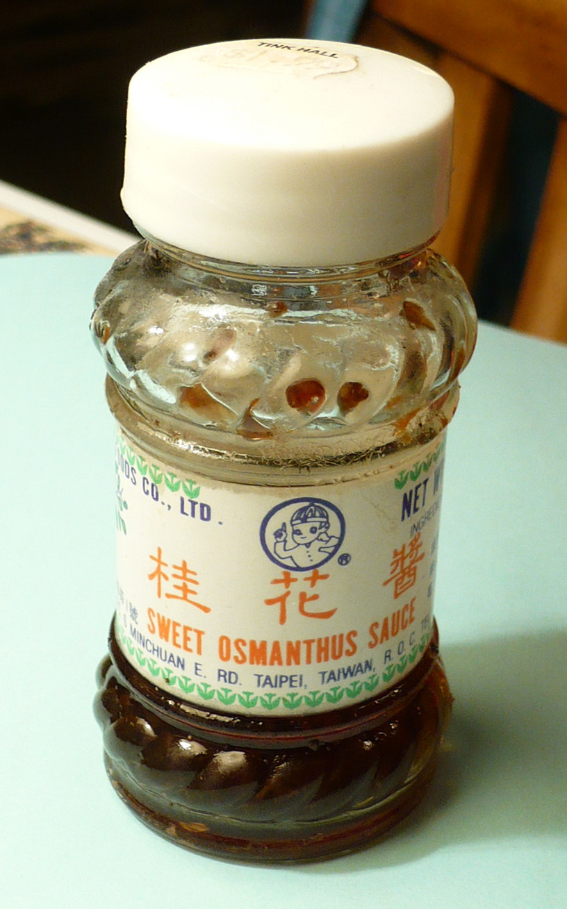 A small glass jar of commercially produced Sweet Osmanthus sauce, which is used in Chinese cuisine. Photo taken in Kent, Ohio with a Panasonic Lumix digital camera (model DMC-LS75). Sweet Osmanthus sauce distributed by Wu Hsing Foods Co., Ltd., Taipei, Taiwan. Ingredients include Osmanthus, sugar, and salt.